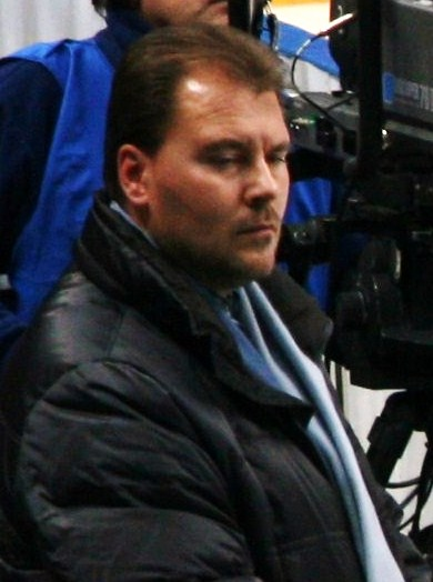 Michael Huth at the 2010 Cup of Russia